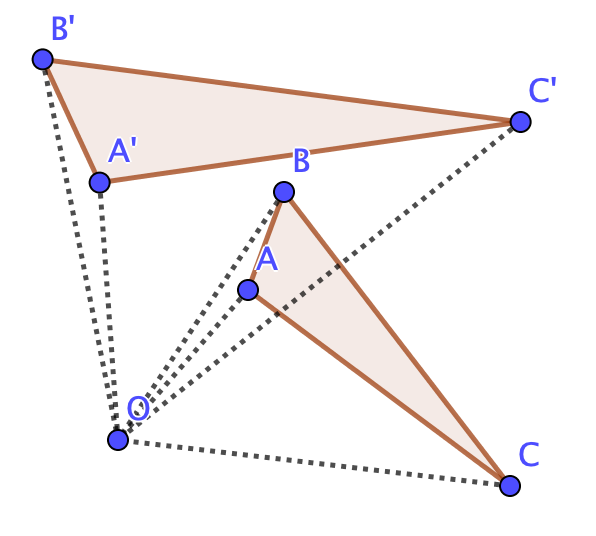 A spiral similarity mapping triangle ABC to triangle A'B'C'.